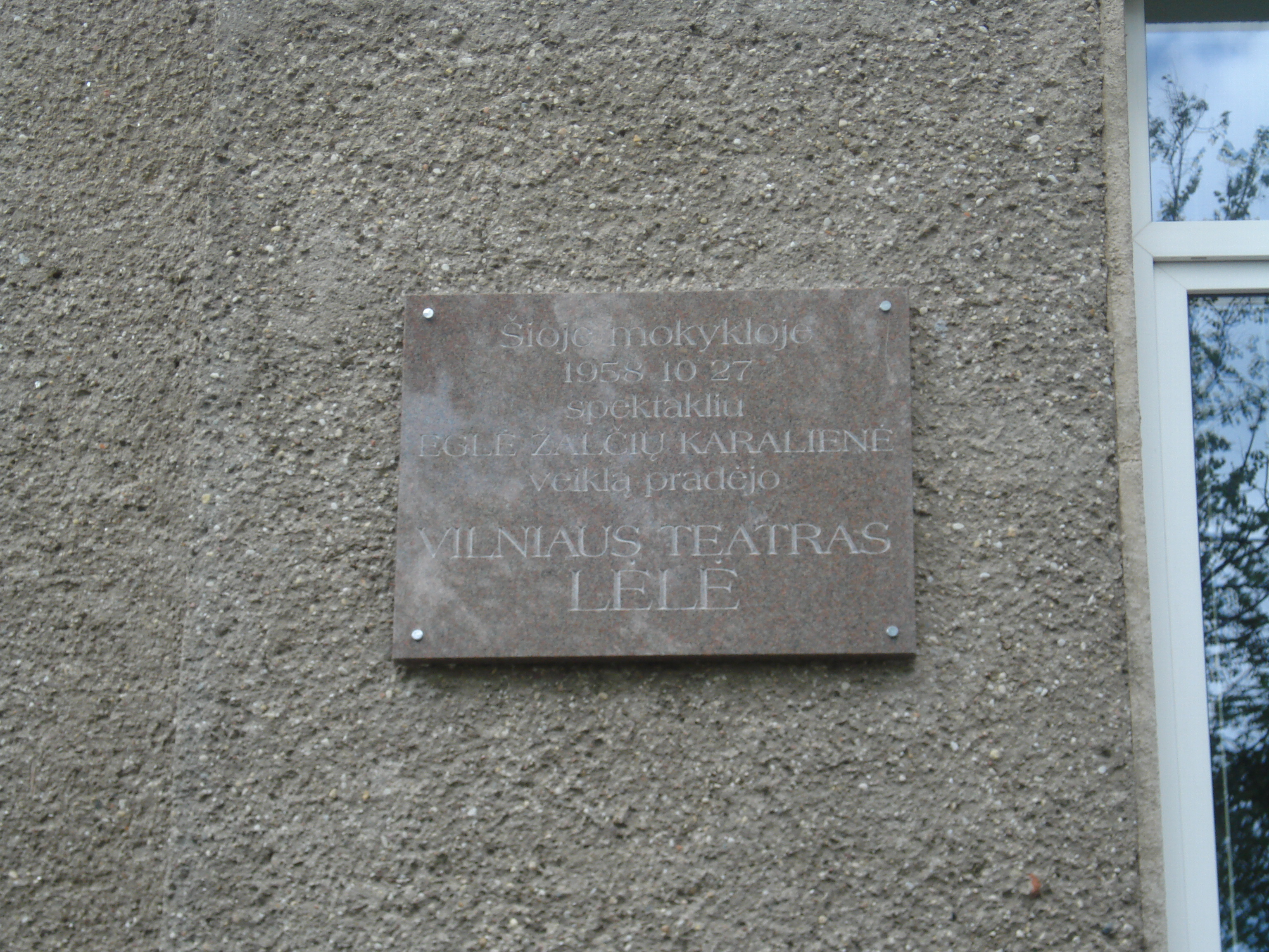 Vilniaus Užupis gymnasium, Lithuania. Memorial plaque